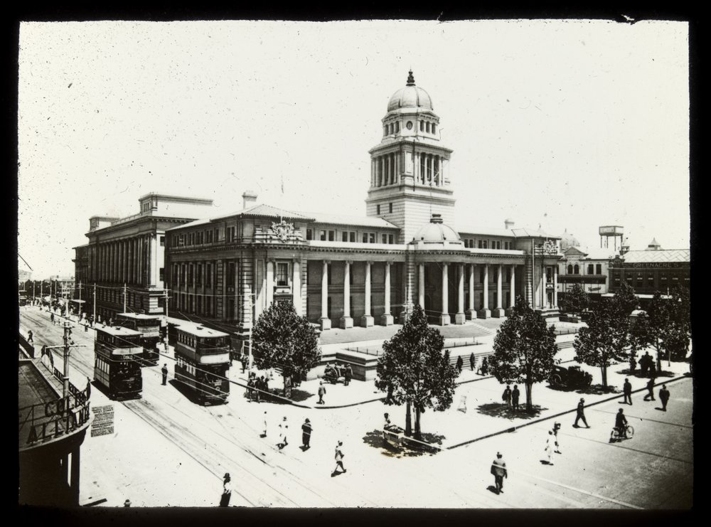 Looking across the square and the street directly towards the town hall building, built in a classical style, with its classical columns and portico and high-domed tower, with views of trams passing by and people walking in the street.